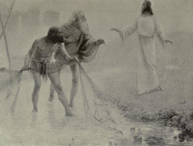 Christ and the Fishermen (1891) by Frank Vincent DuMond.